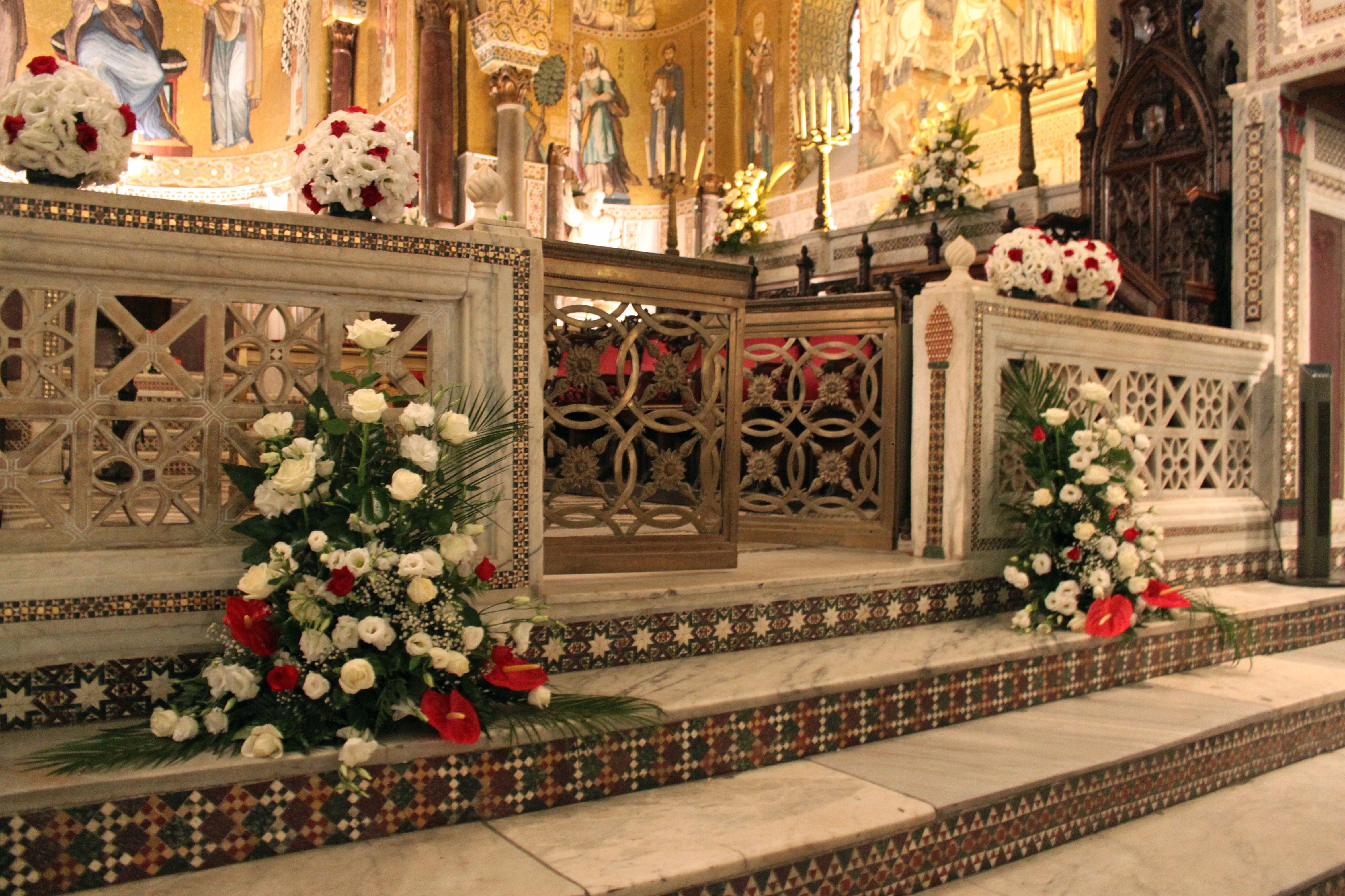 Palatine Chapel, Palermo. Steps to the altar